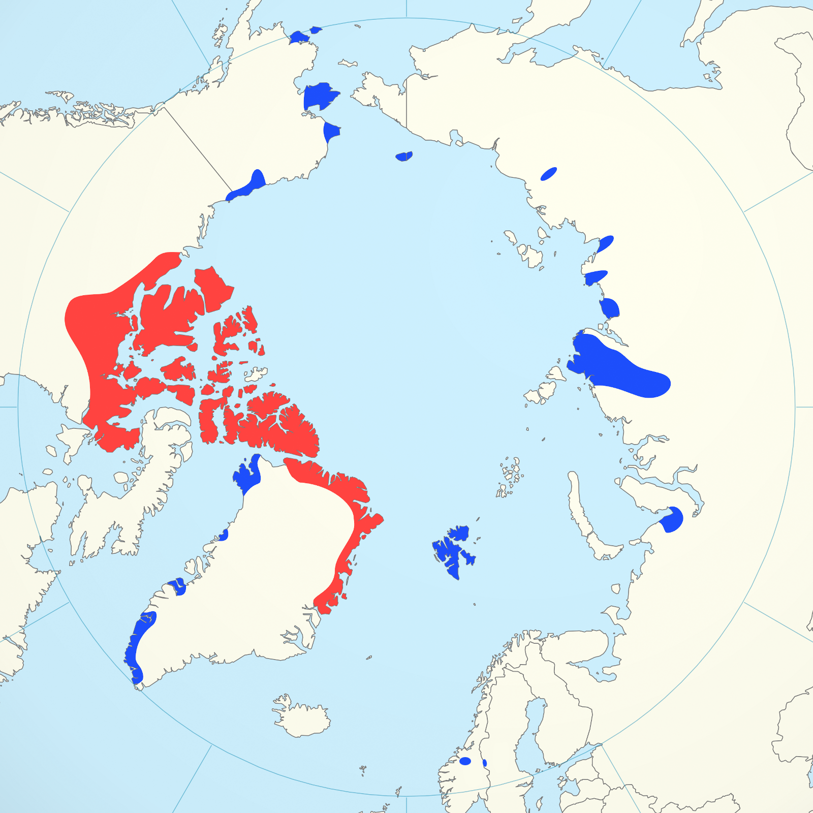 Distribution of muskox. Red: historical habitat. Blue: recently introduced populations.